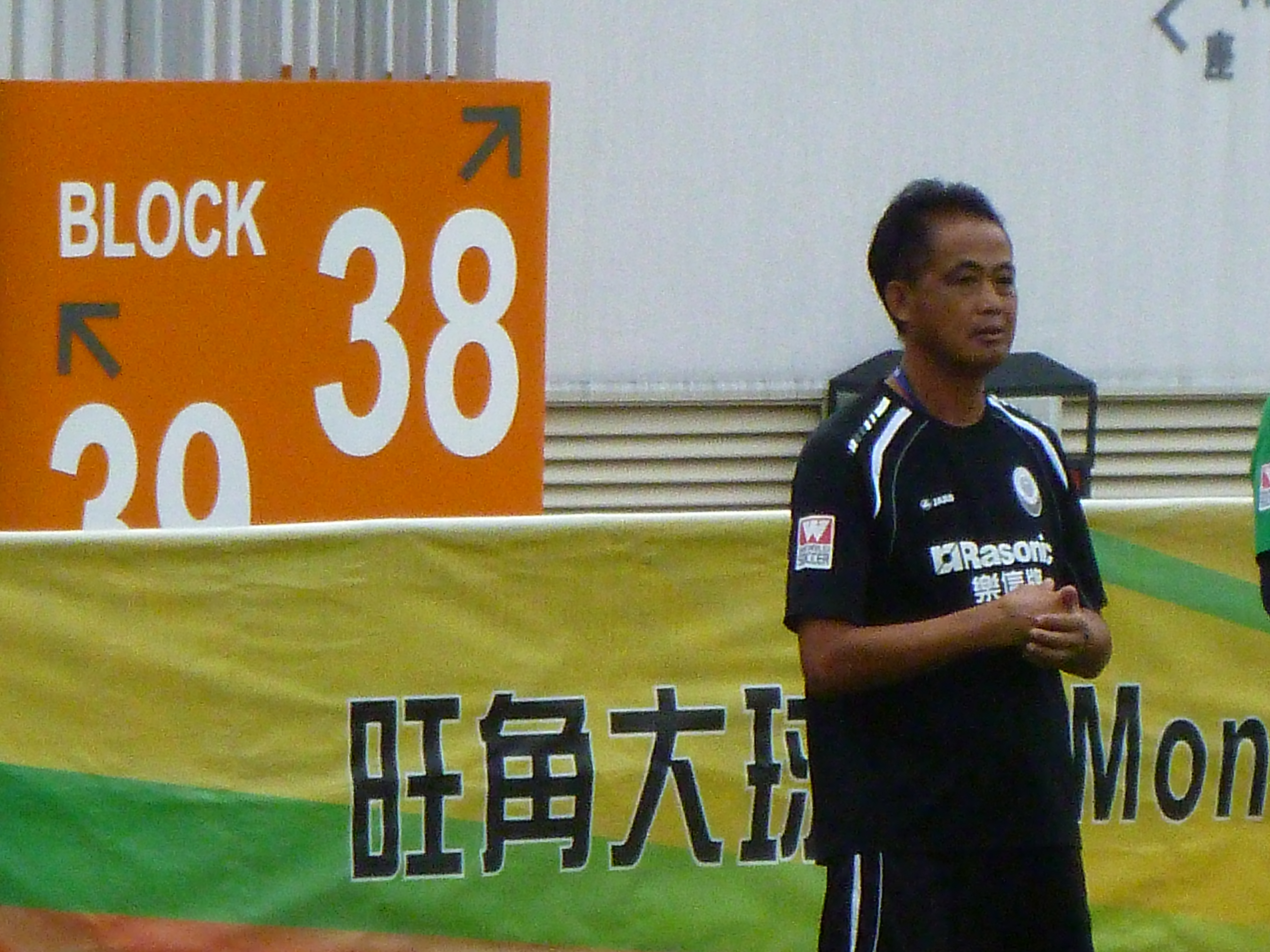 Chu Kwok Kuen (11 Nov 2012 Hong Kong First Division League, Citizen vs Tai Po, Mong Kok Stadium) 中文（香港）: 朱國權 (11 Nov 2012 香港甲組足球聯賽 公民 vs 大埔 旺角大球場)